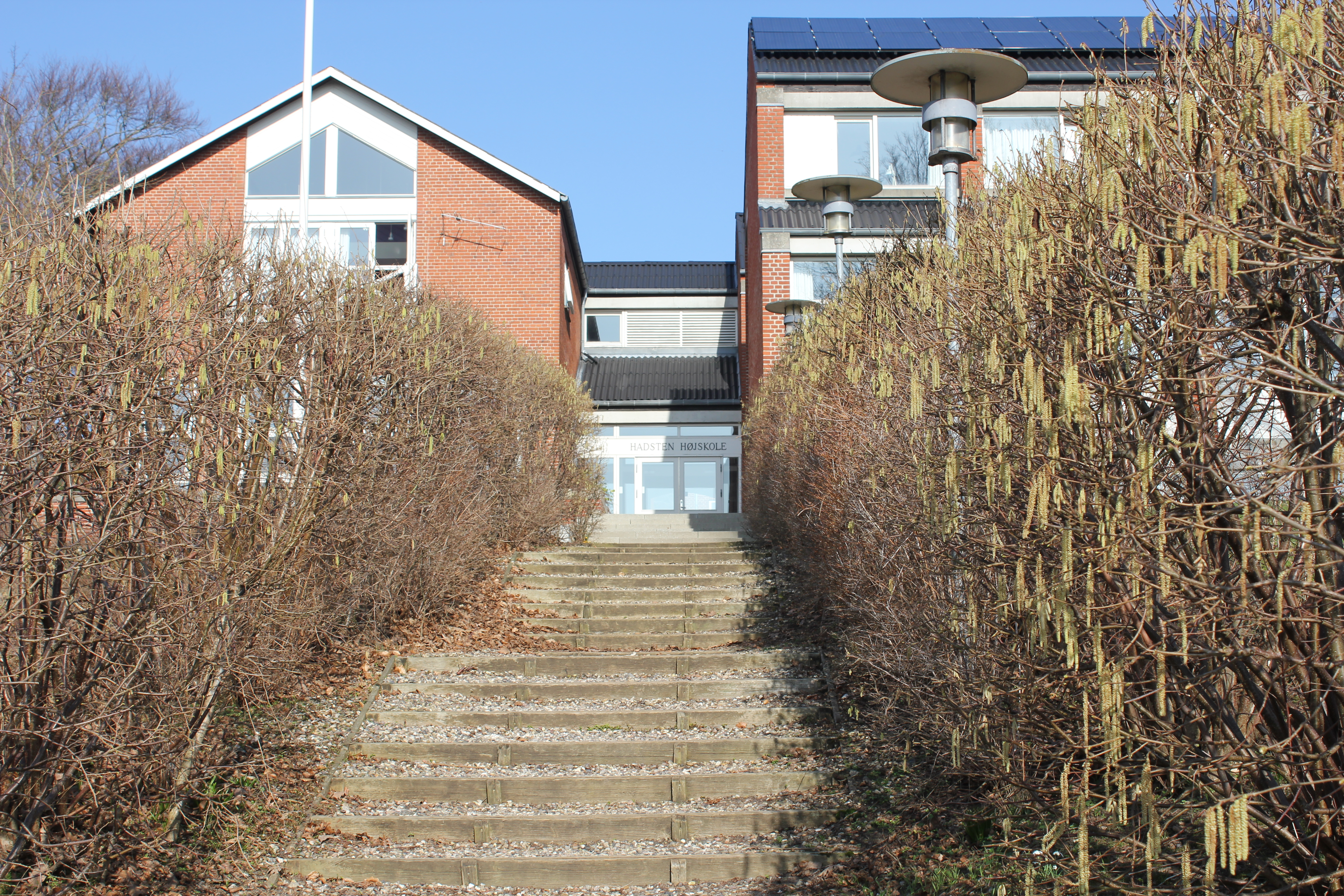 Højskolen set fra Østergade mod hovedindgang